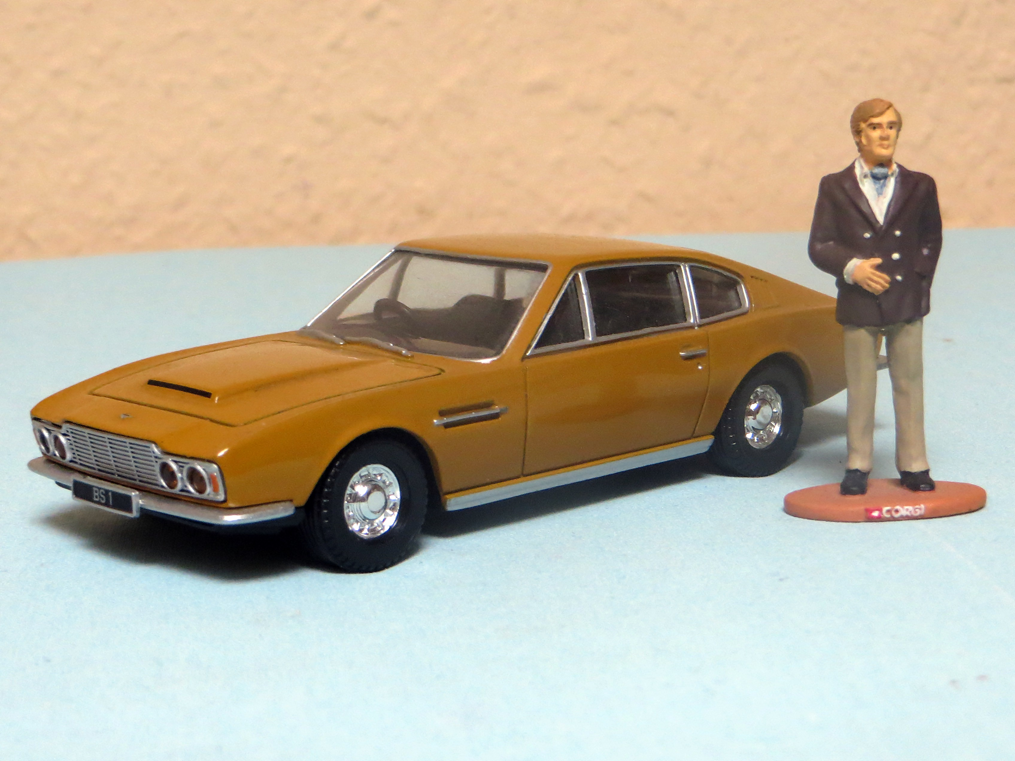 Corgi Toys-Filmmodell Aston Martin DBS (Die 2/The Persuaders)